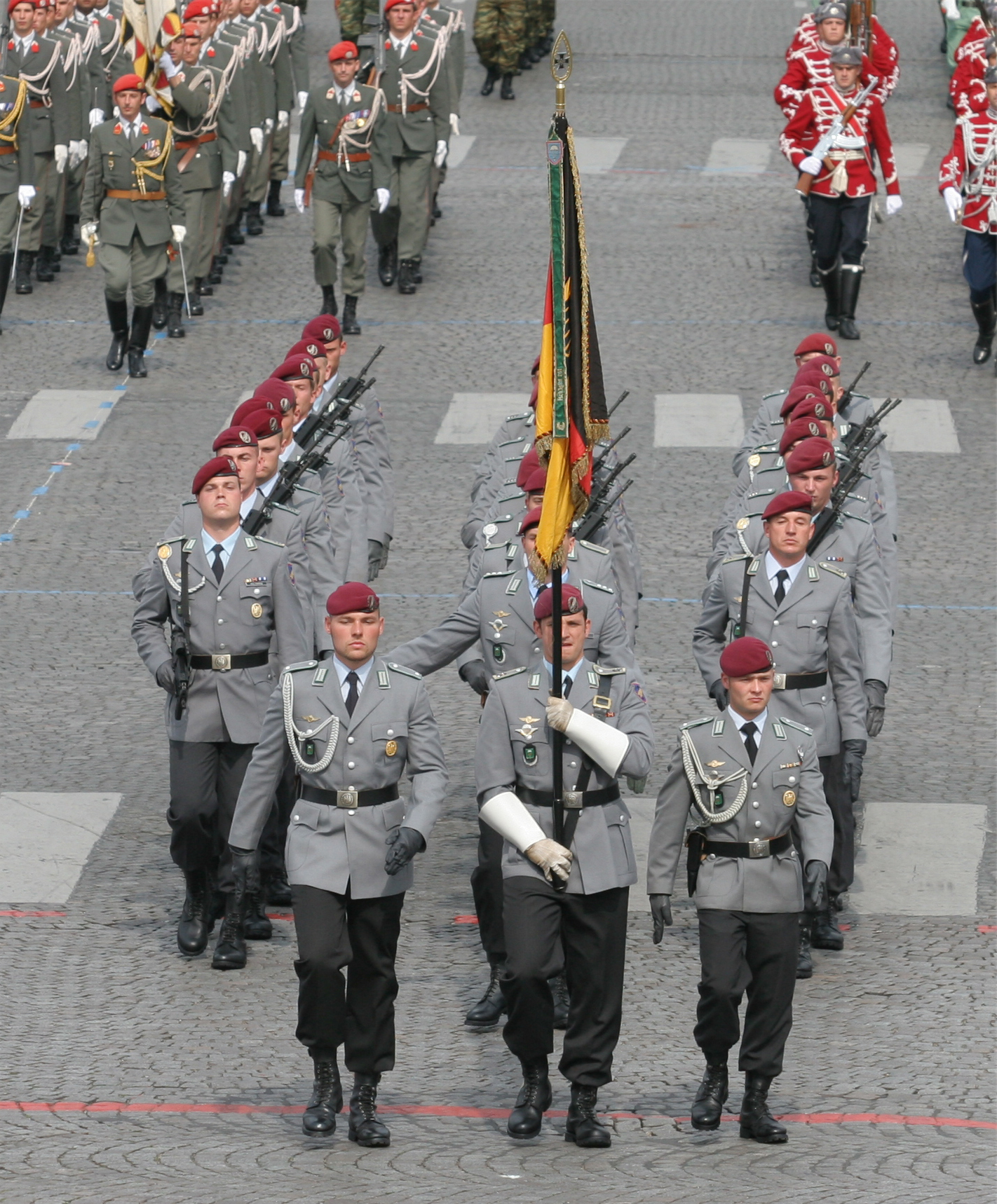 Fallschirmjäger of the 26th Air Assault Batallion "Saarland" of the German Army marching on the Avenue des Champs-Élysées in Paris during the 2007 Bastille Day Military Parade